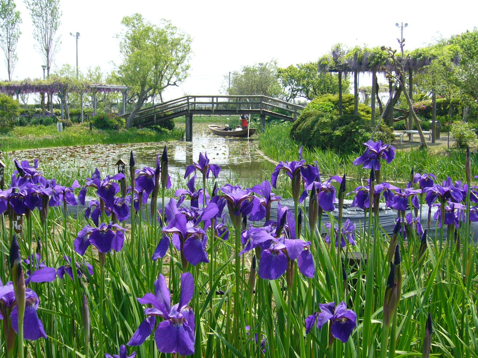 Iris sanguinea at Suigō Sawara Ayame Par in Katori City, Chiba Prefecture, Japan